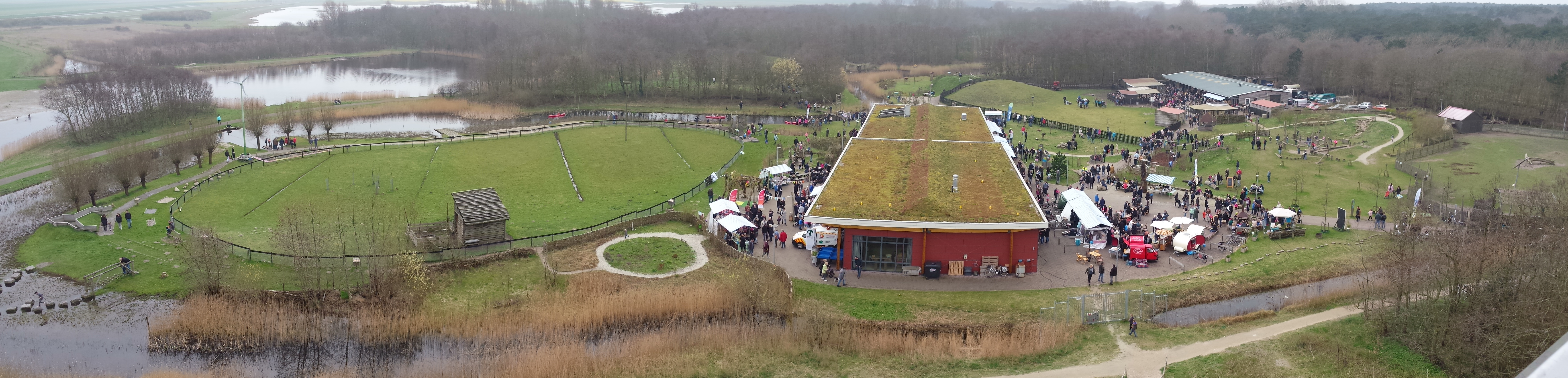 Visitor center in Den Helder